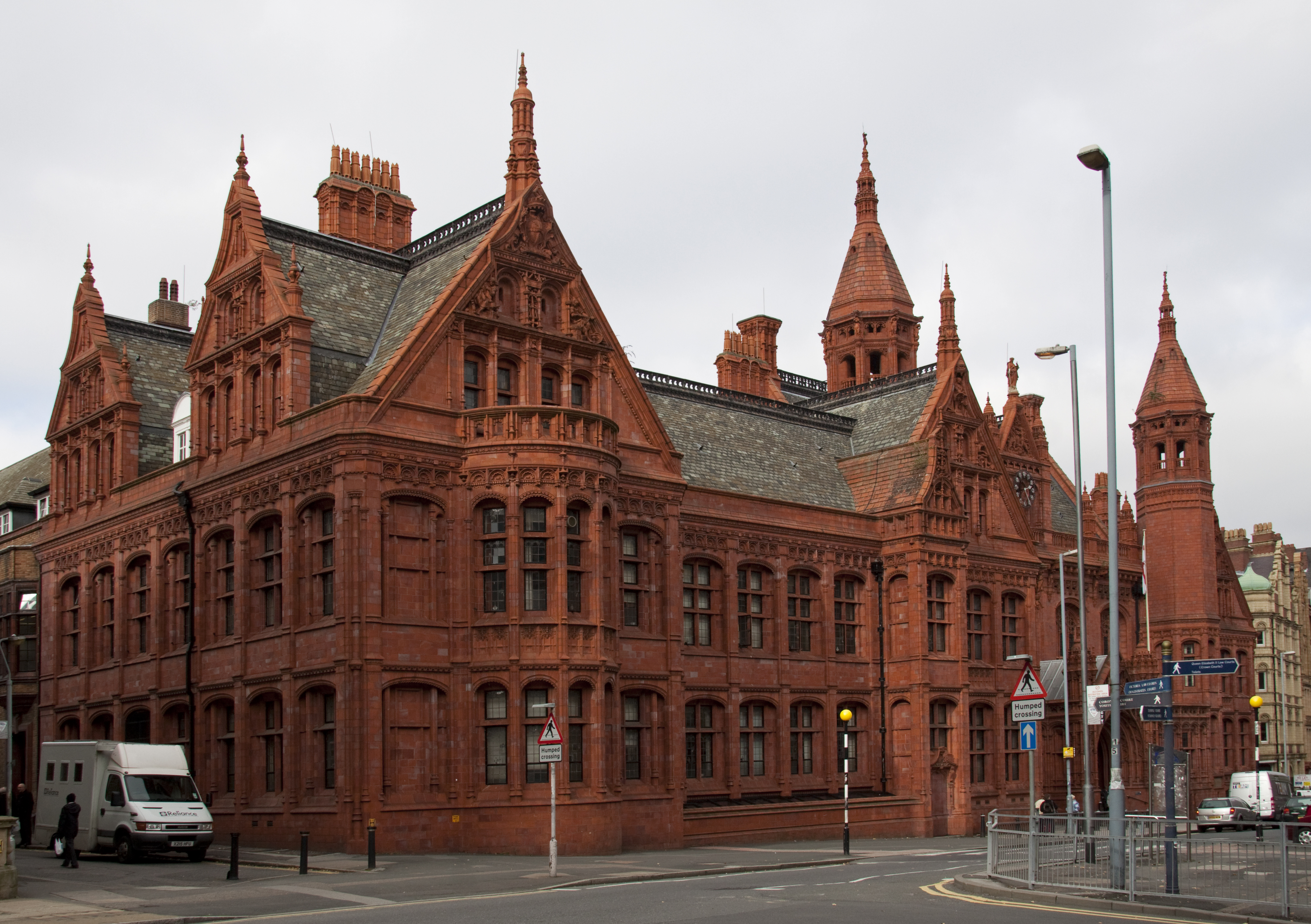 Victoria Law Courts built between 1887 and 1891